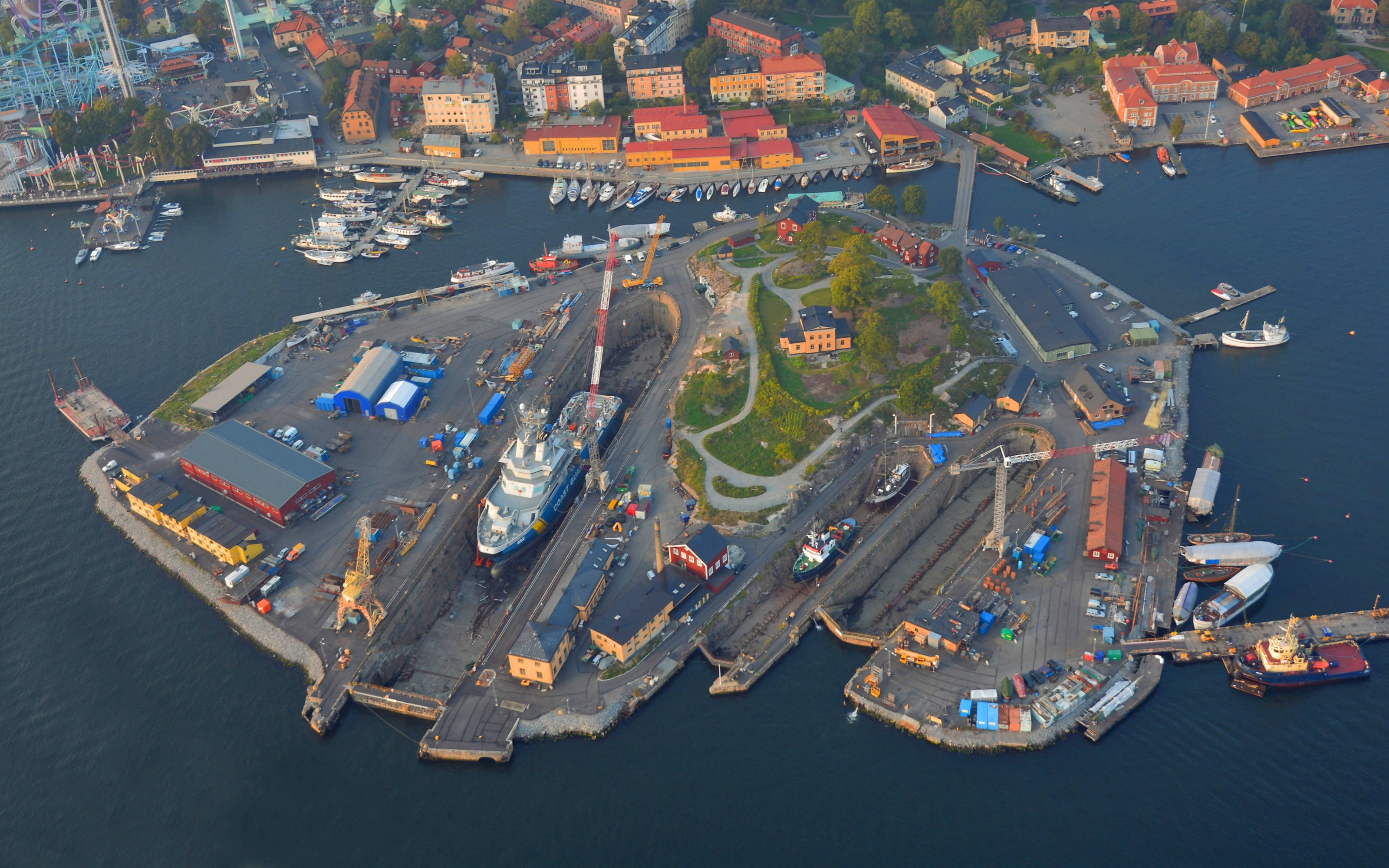 The isle Beckholmen in Stockholm, Sweden.